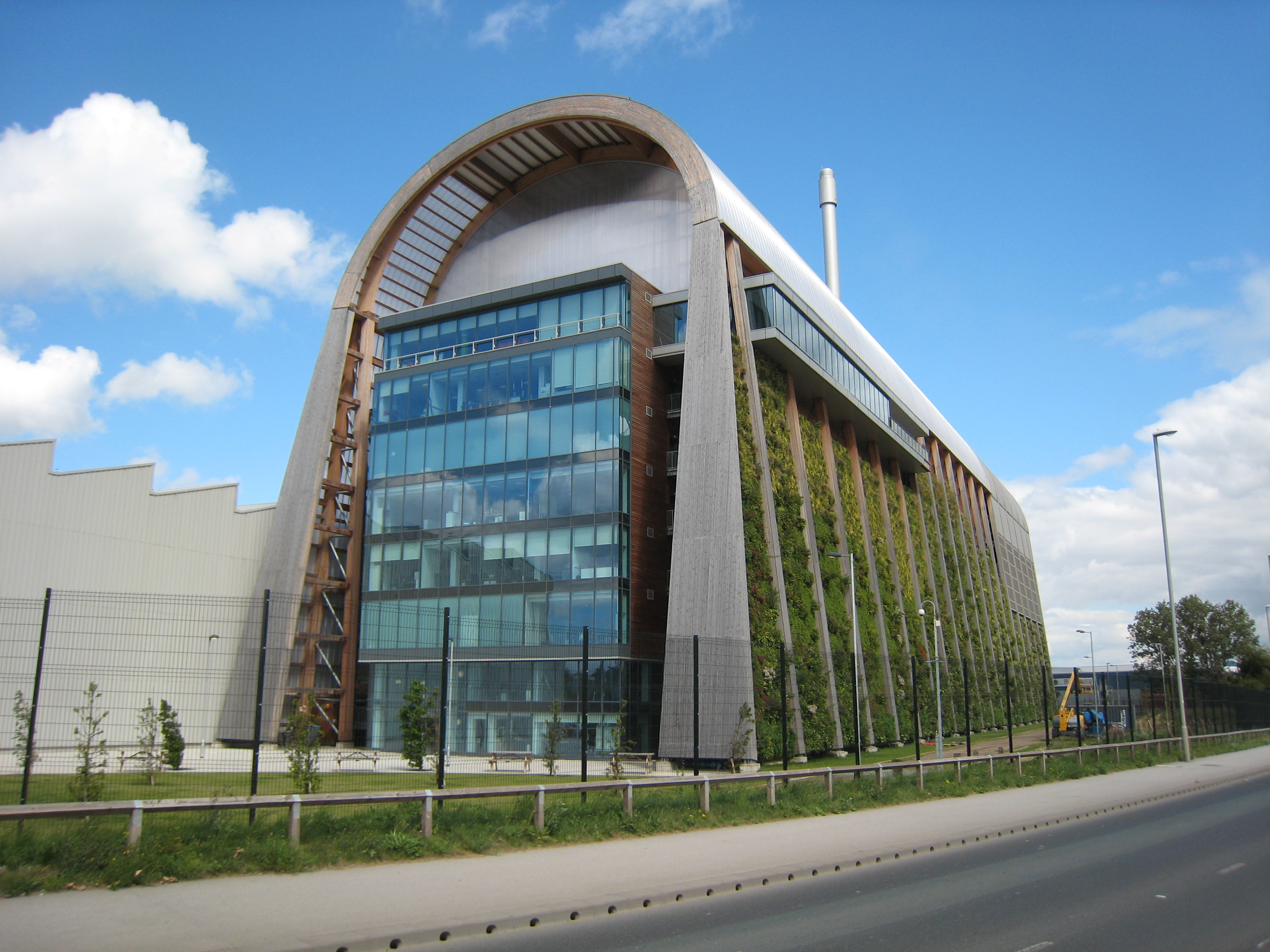 Leeds Recycling and Energy Recovery Facility, Newmarket Approach, Cross Green, Leeds LS9 0RJ. Viewed from Pontefract Lane. An 11 MW incinerator for domestic waste (black bin bags). There is Green Wall on the South side.